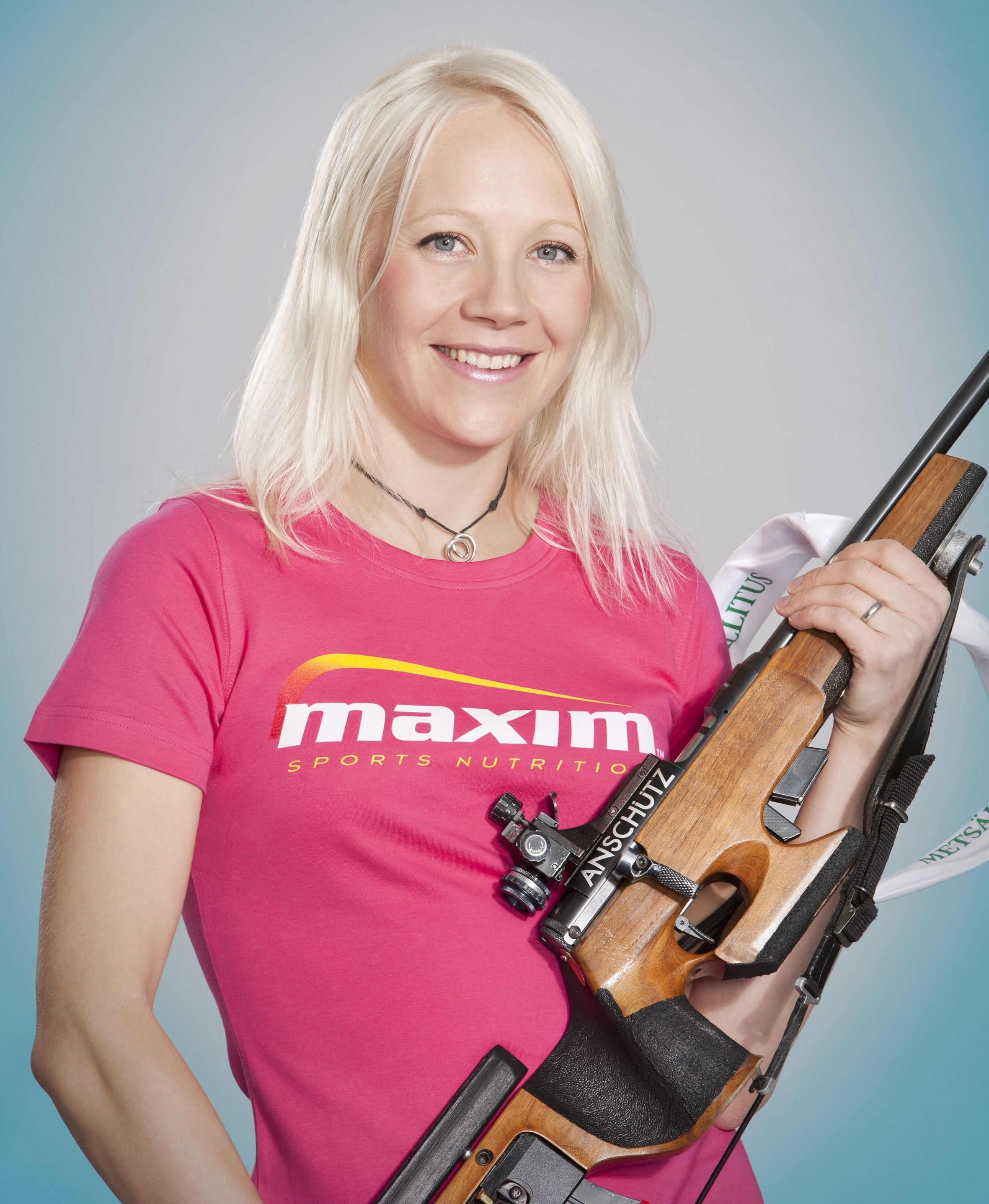 Finnish biathlete Kaisa Mäkäräinen.